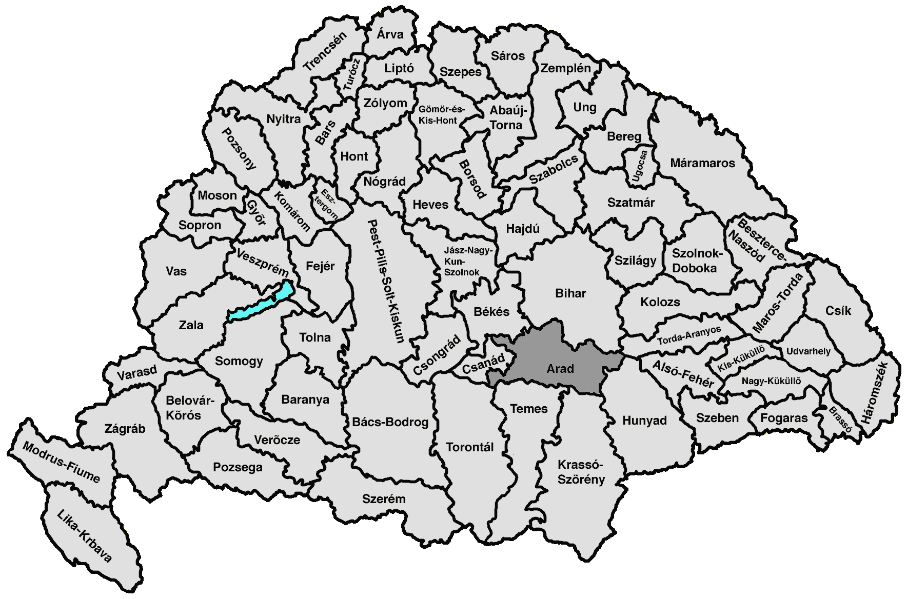 own edit of Image:Zala.png